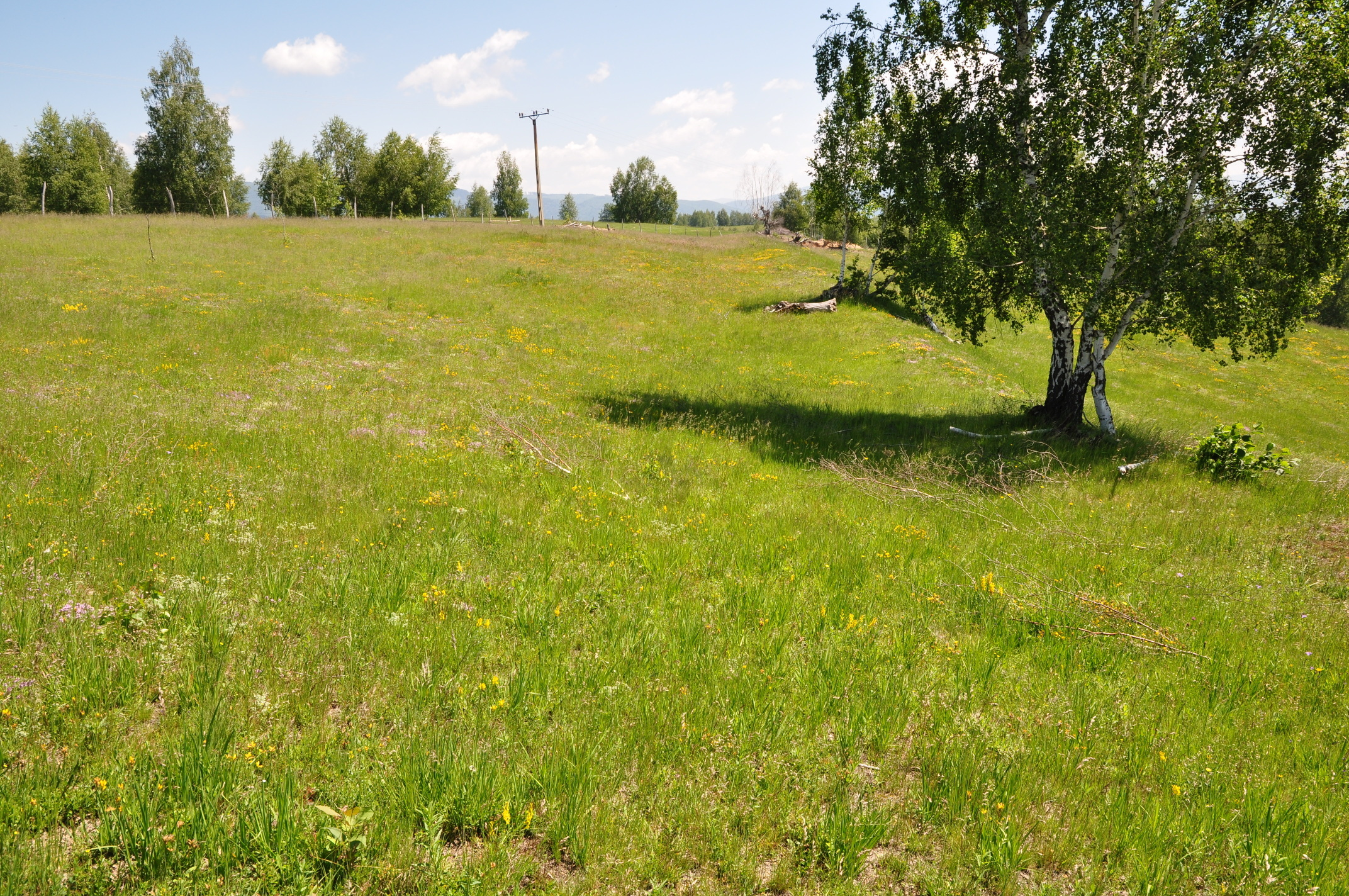 Castra of TârsaRomână: Castrul roman de la Târsa